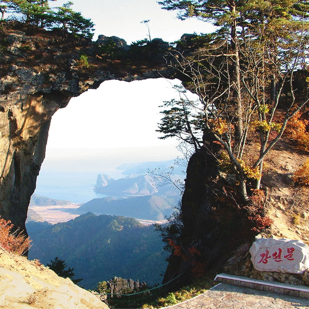 North Korea DPRK